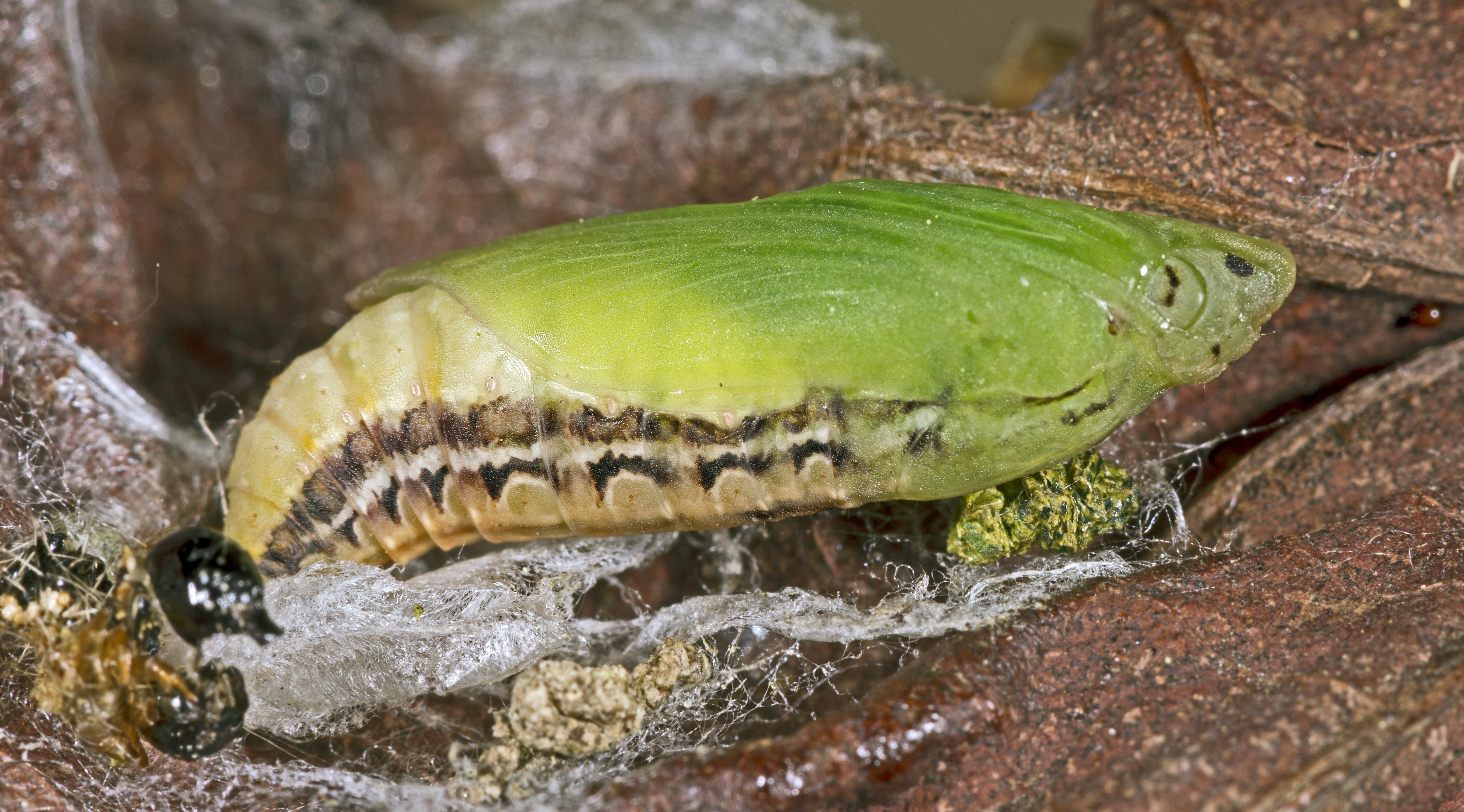 Pupa of Box Tree Moth.